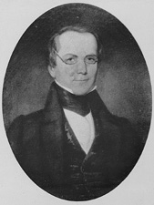 Official portrait of former senator Isaac S. Pennybacker (D-VA).